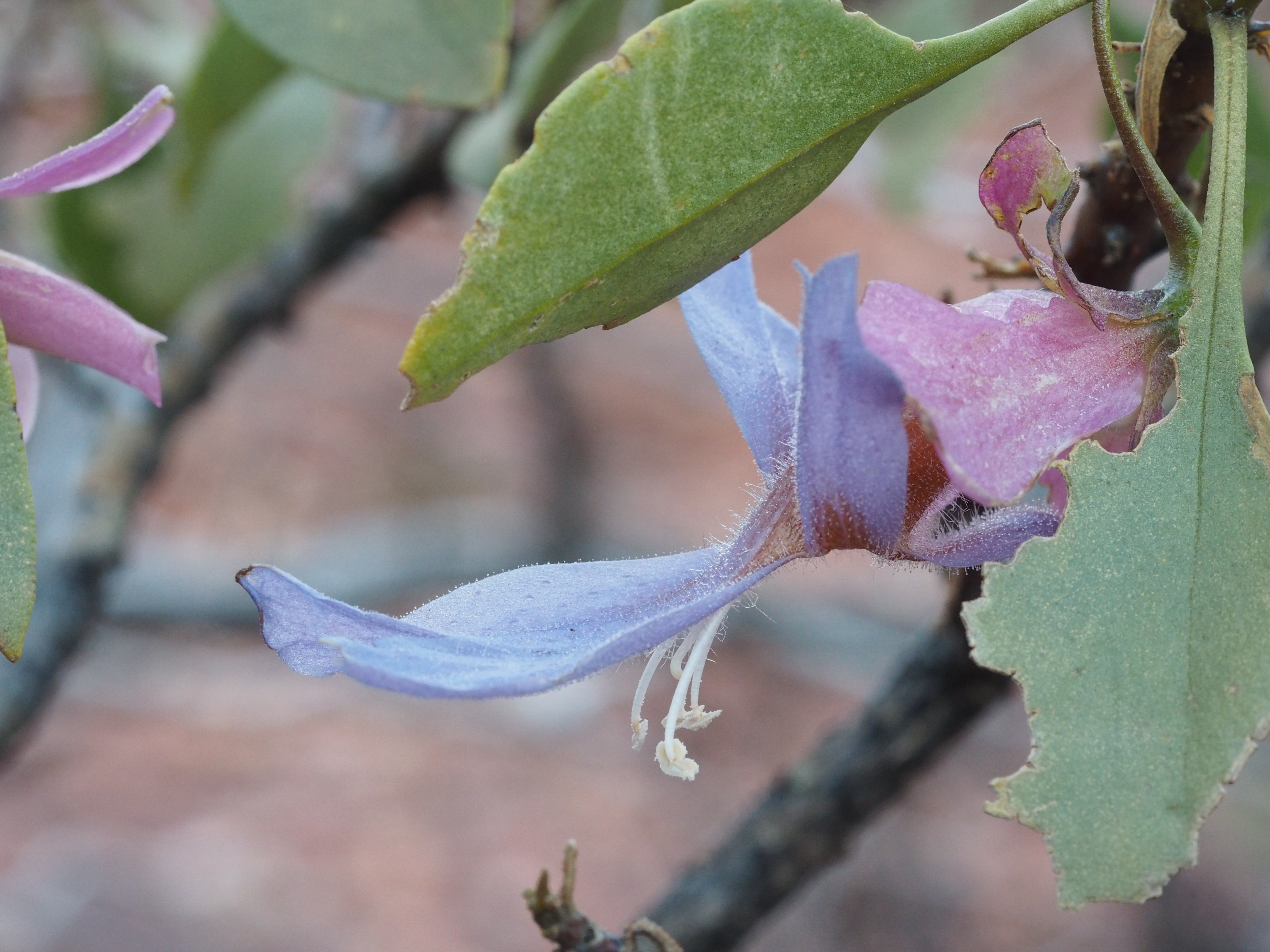 Eremophila flaccida flaccida growing in "The Pound" at Mount Augustus